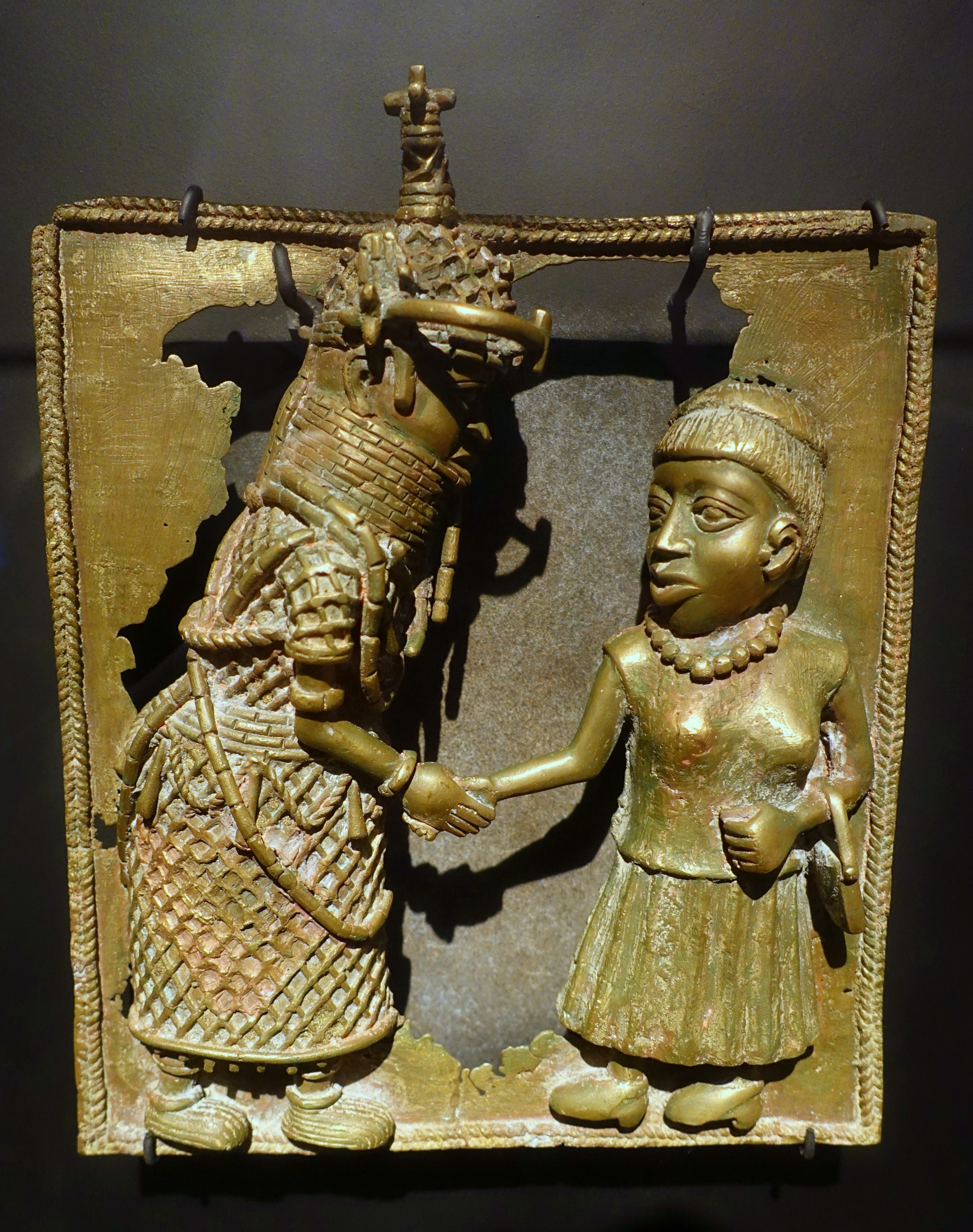 Exhibit in the Etnografiska museet, Stockholm, Sweden. Bronze plaque depicting the meeting between Akenzua II, Oba of Benin, and Queen Elizabeth II, during the latter's visit to Nigeria in 1956. Cast in 2009 by the Oba's grandson Uyi Omodamwen (born 1974) and donated to the museum in 2010. This is a photo of an artwork at the Museum of Ethnography in Sweden with the identifier: 2010.01.0001